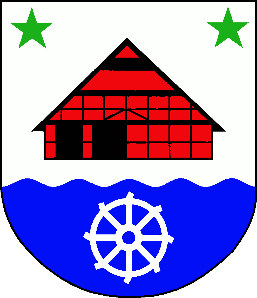 Coat of arms of the municipality Mehlbek in Schleswig-Holstein, Germany.